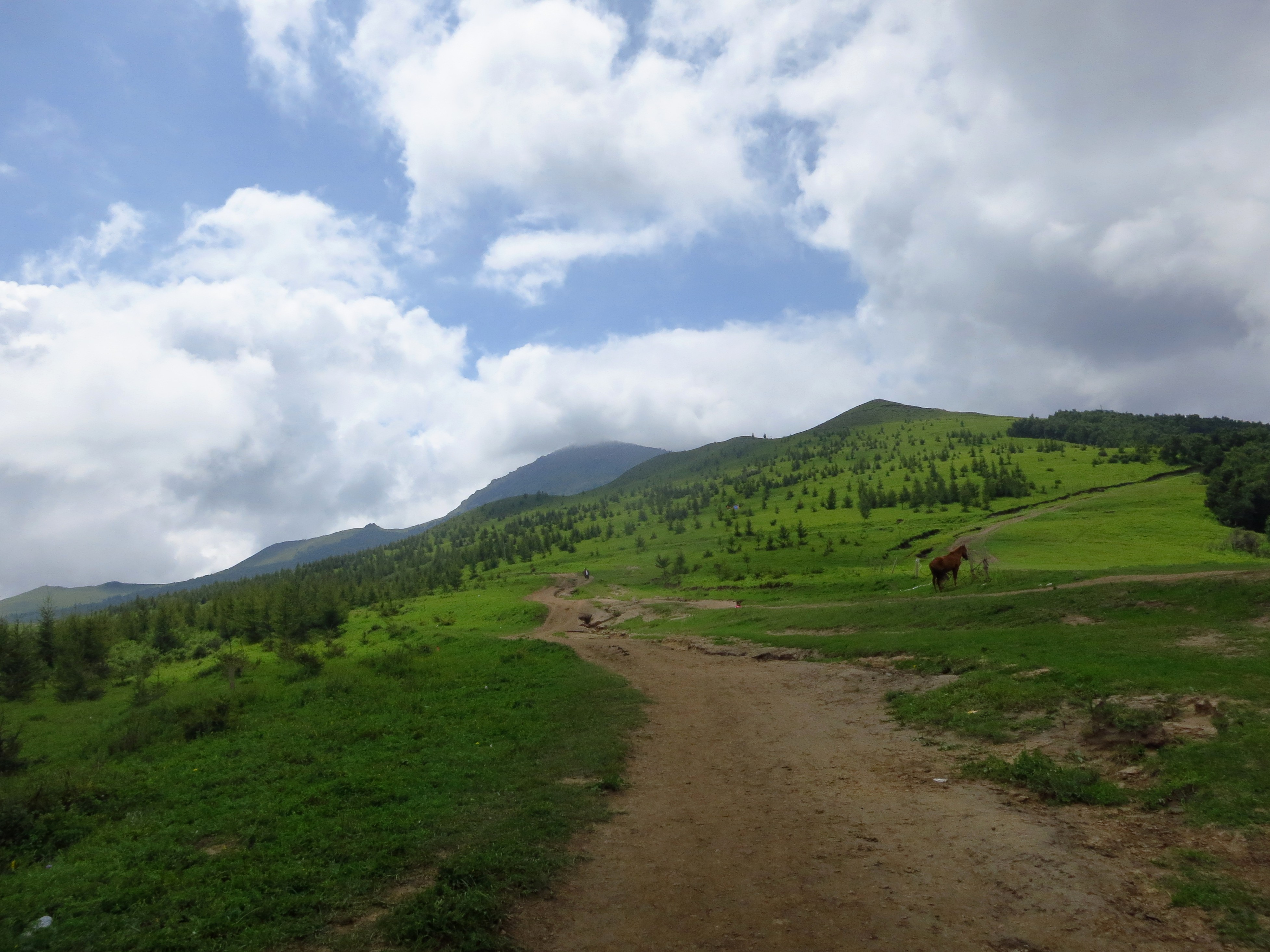 高山草甸 - Alpine Meadows - 2016.08